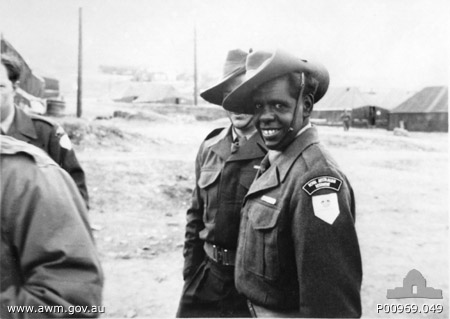 CAMP CASEY, SOUTH KOREA. 1953-03. INFORMAL PORTRAIT OF PRIVATE STEVE DODD, AN ABORIGINAL SERVICEMAN OF 1 BATTALION, THE ROYAL AUSTRALIAN REGIMENT (1RAR), STANDING WITH FELLOW SOLDIERS.